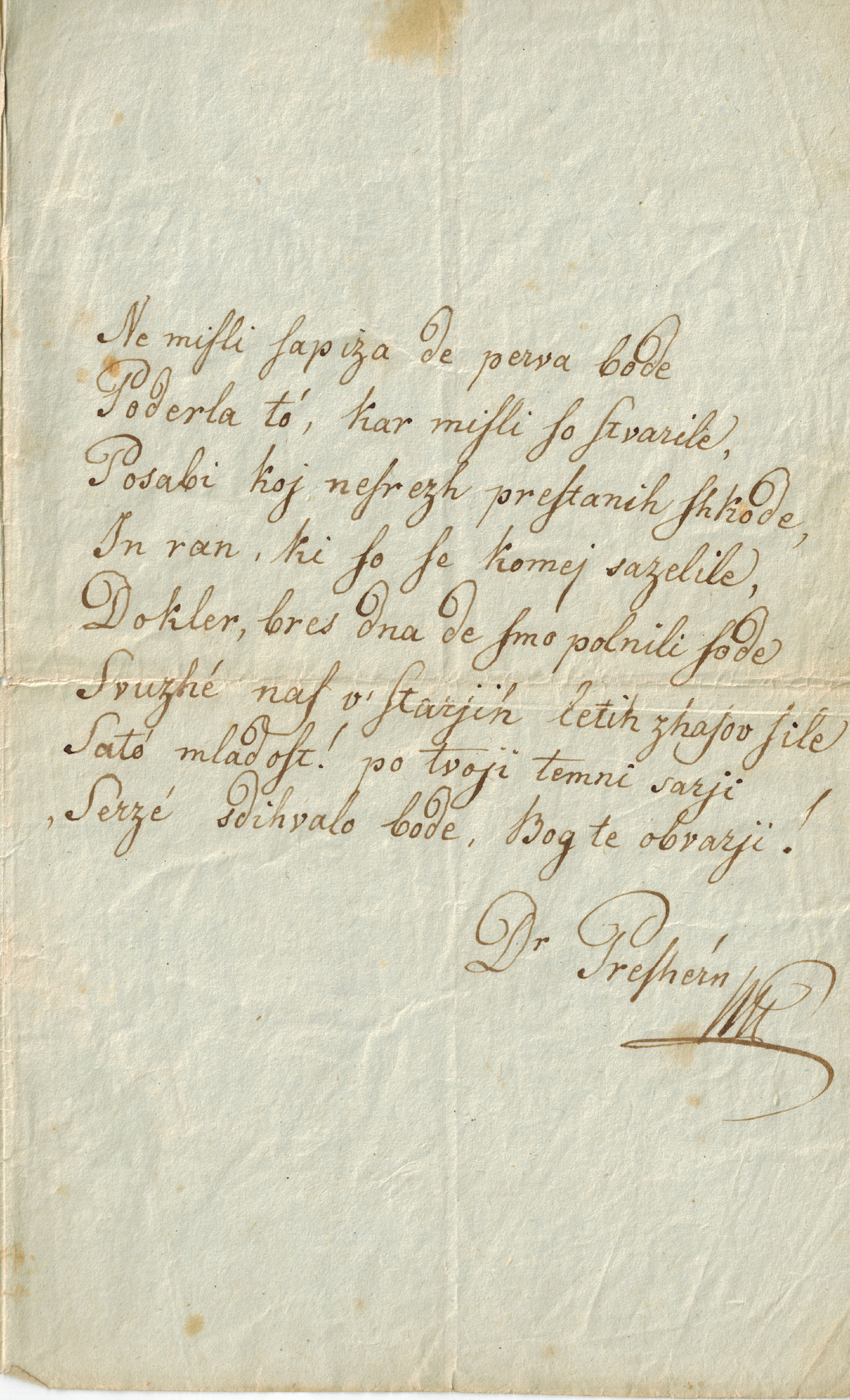 France Prešeren, Slovo od mladosti (rokopis iz Clevelanda)